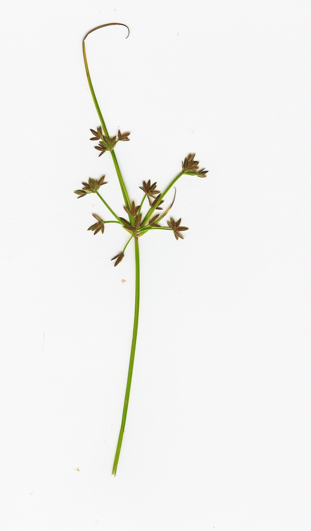 Cyperus haspan (sprig). Location: Maui, Haleakala Ranch